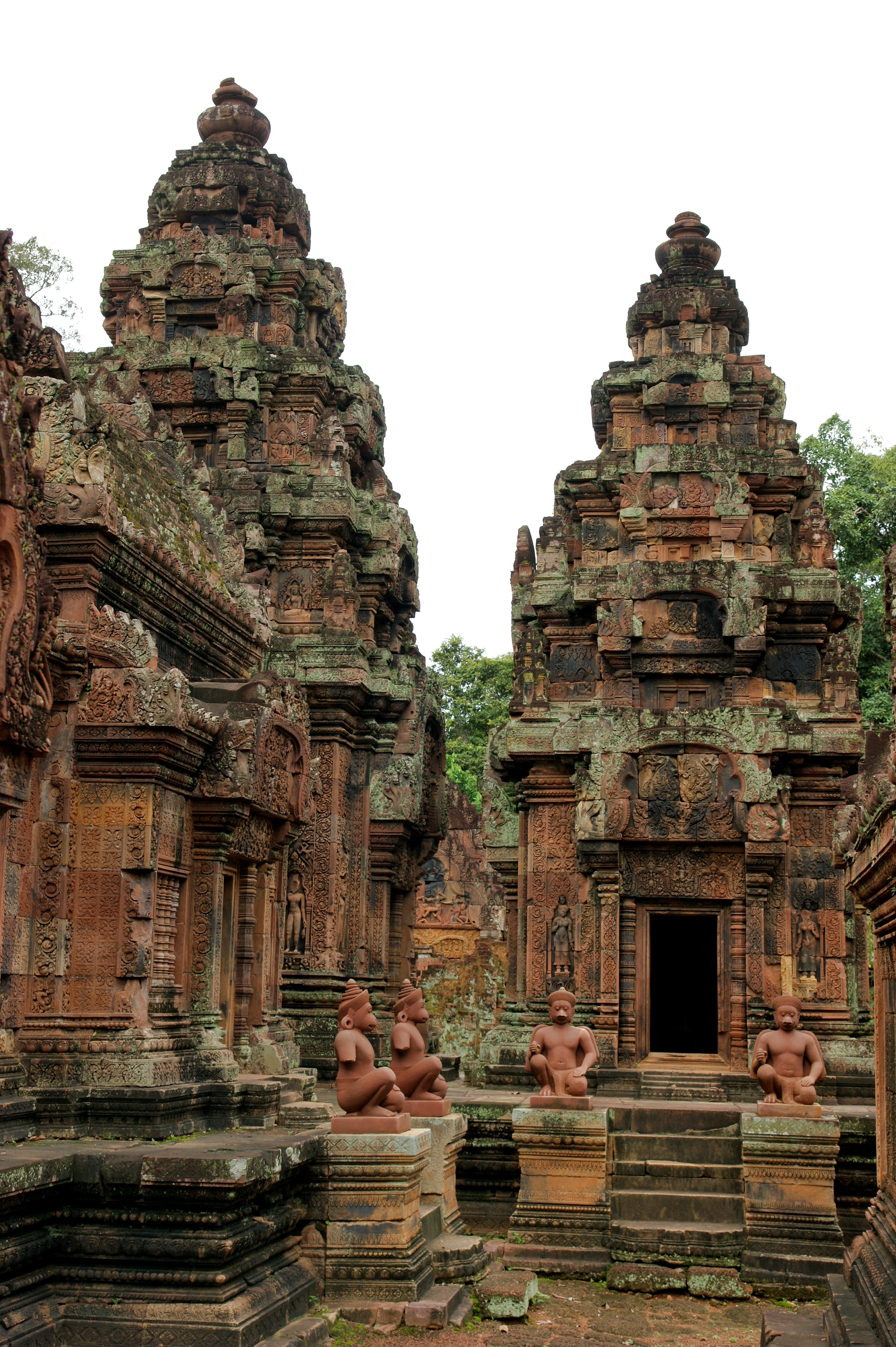 A view of the Angkor temple of Banteay Srei in Siem Reap, Cambodia. It dates to the 10th century and was dedicated to the Hindu god Shiva. Banteay Srei is the only temple structure at Angkor to be built by a palace courtier, named Yajnyavahara, rather than a king of the Khmer Empire. Yajnyavahara was a courtier to the Khmer king Rajendravarman II.